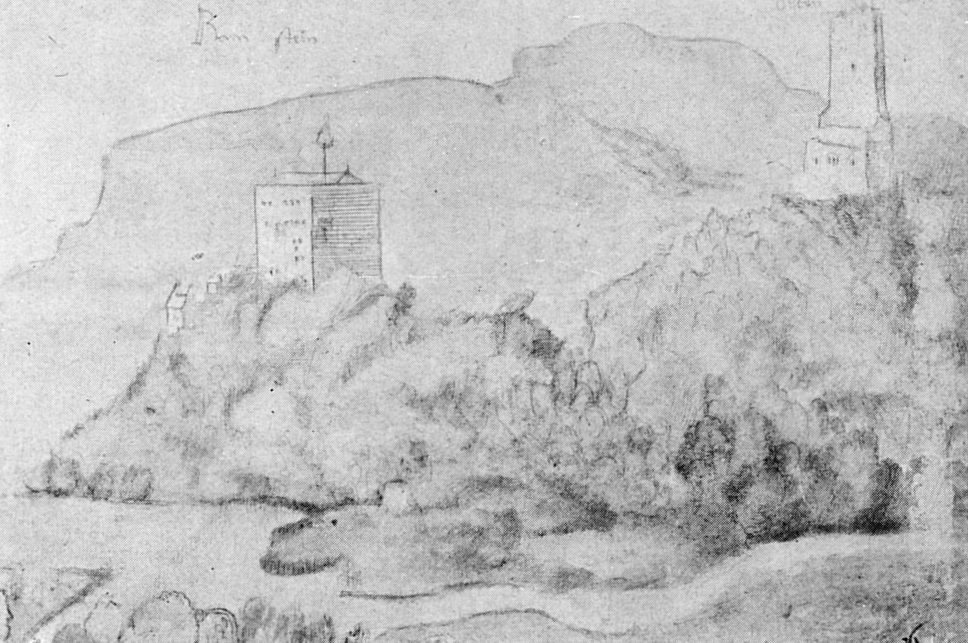 Drawing of the Alsacien castles of Ortenberg (right) and Ramstein (left), Kupferstichkabinett Berlin